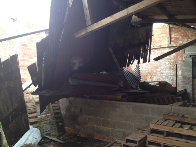 Photo showing Morgan's Hill, Devizes, Wiltshire, UK, showing interior of a building used to house equipment and staff for Devizes wireless station.